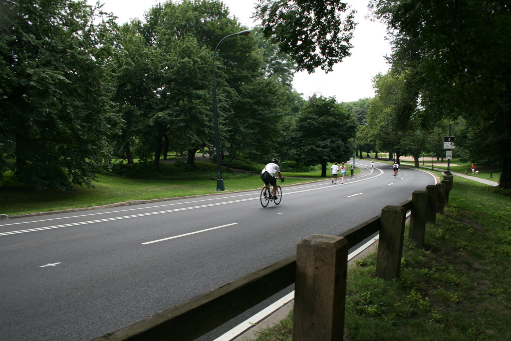 In the summer of 1966, two-term mayor of New York (1966-73) John V. Lindsay, himself and avid cyclist, initiated a weekend ban on automobiles in Central Park for the enjoyment of cyclists and public alike – a policy that has stuck to this day.